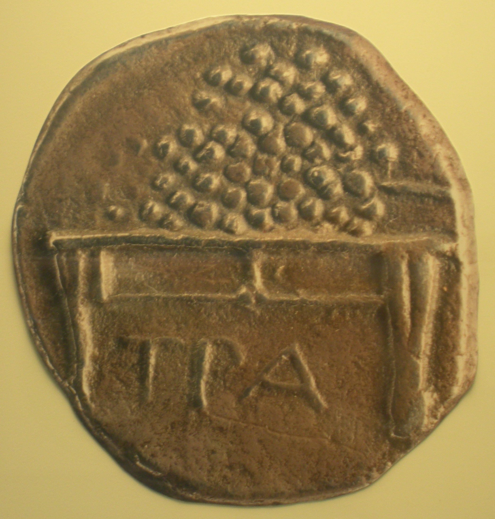 Silver drachma coin from Trapezus on the Black Sea, 4th century BC. Own photograph from the British Museum in London, First Floor - Room 68: Money. British Museum allows photos to be taken of its exhibits as long as they are not used for commercial reasons. Author: Constantine Michailidis.